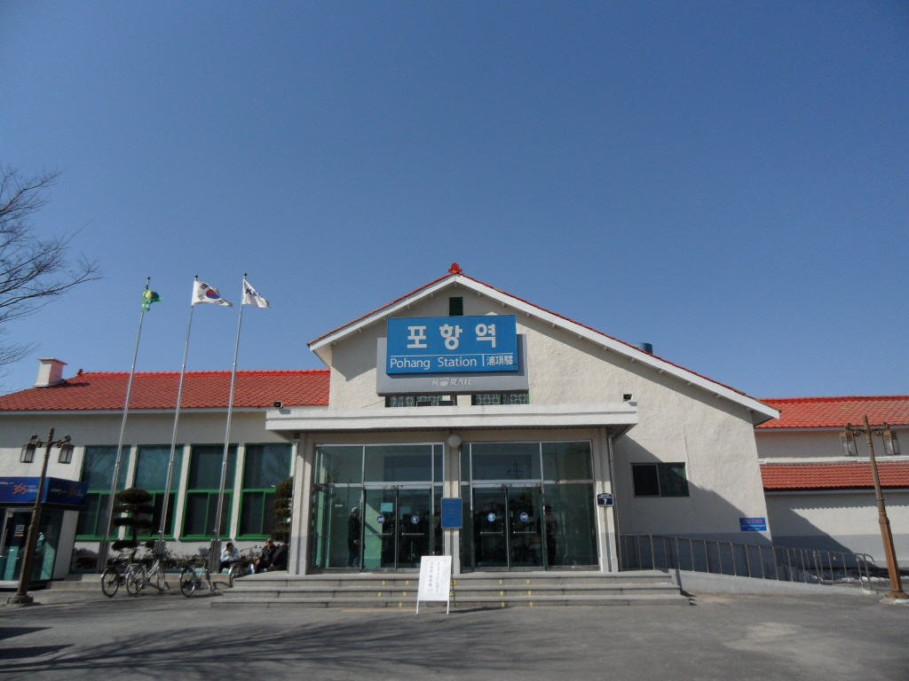 Korail Pohang Station